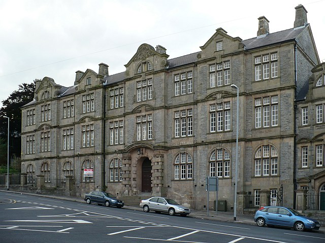 Shire Hall, Pentonville Formerly county offices, now let as offices for a variety of purposes. This is a Grade II listed building and is opposite to 895526 .